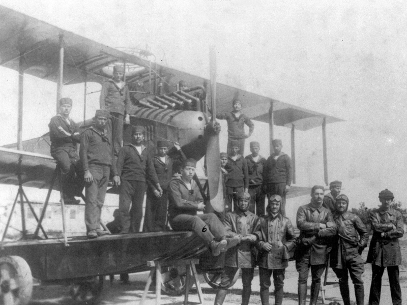 Gotha WD.2 and personnel of the 1st Naval Flight Squadron. Note the observers gun ring above the centre-section, peculiar to the WD.2 aircraft supplied to the ottoman Empire